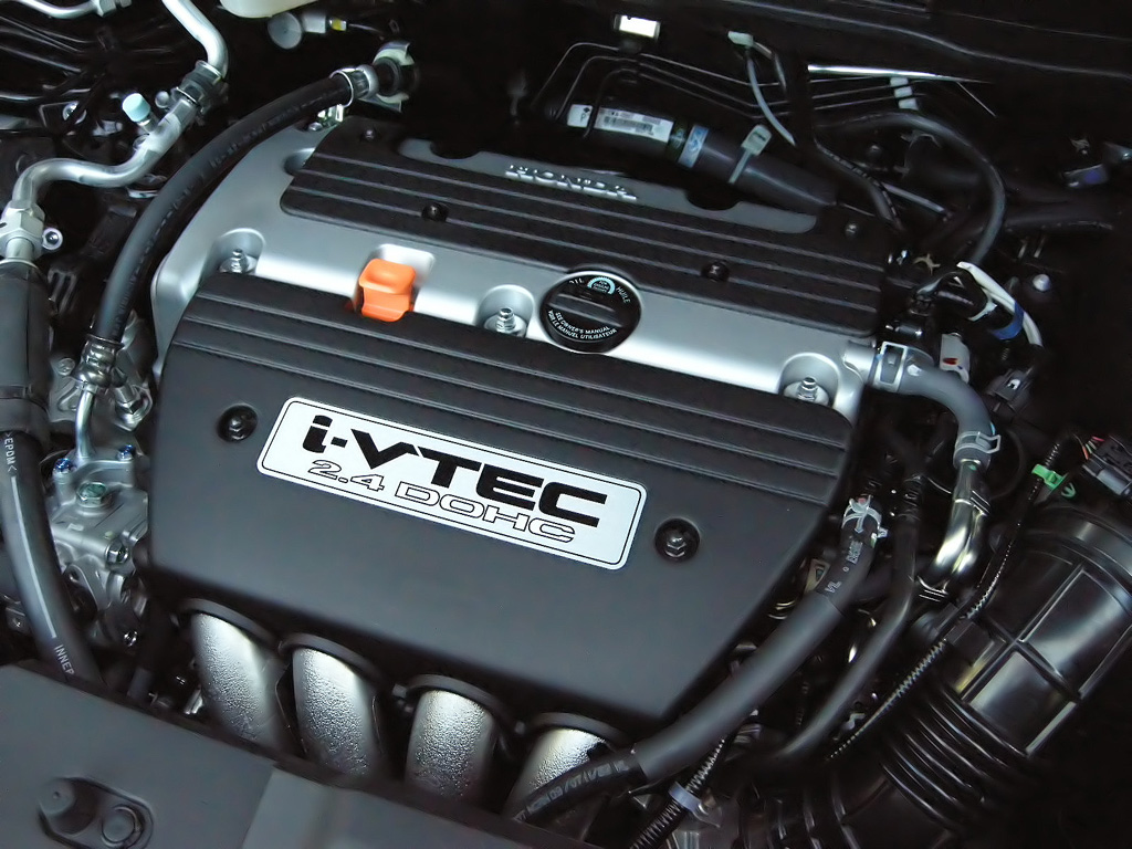 Honda K24A 2.4L DOHC i-VTEC Engine installed in 2007 Honda CR-V